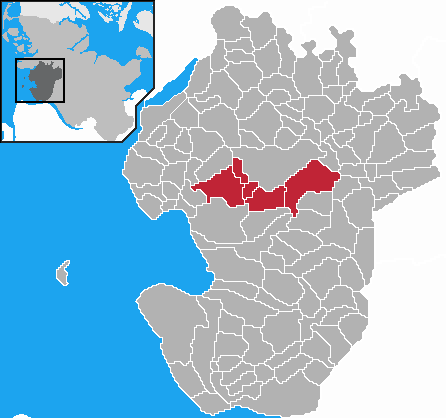 This map shows the area of the Amt Heide-Land in the district Dithmarschen, Schleswig-Holstein, Germany.